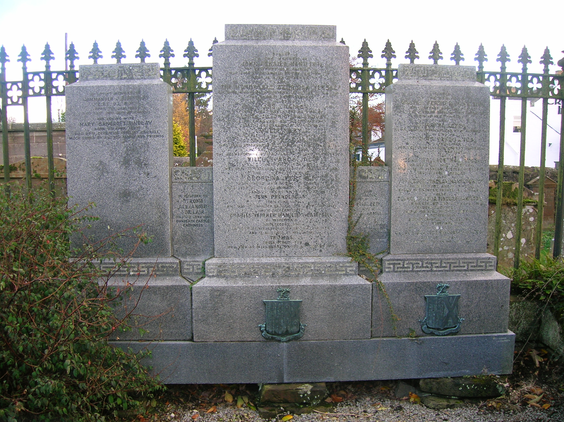 Memorial to the Findlays and Findlay-Hamiltons of the Carnell Estate, Craigie Parish, South Ayrshire, Scotland.